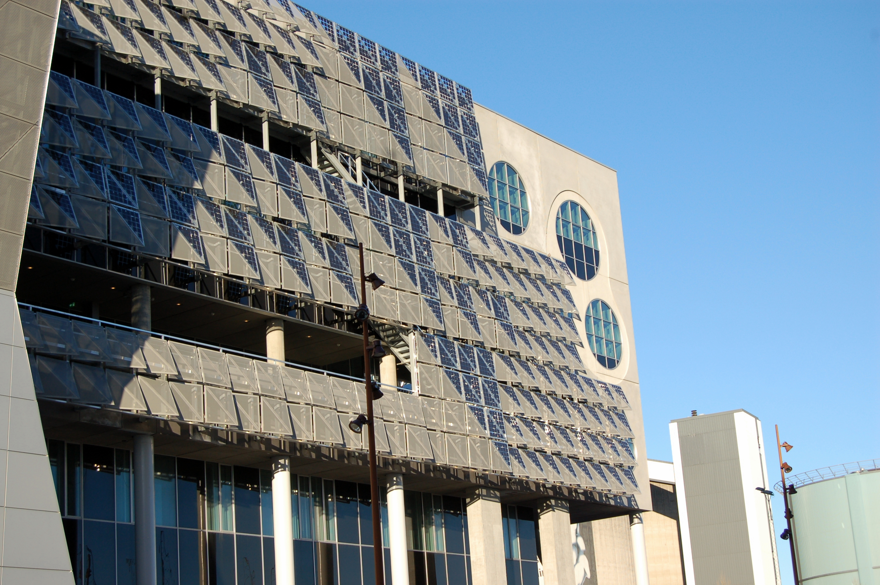 The solar panels on House of Music in Aalborg